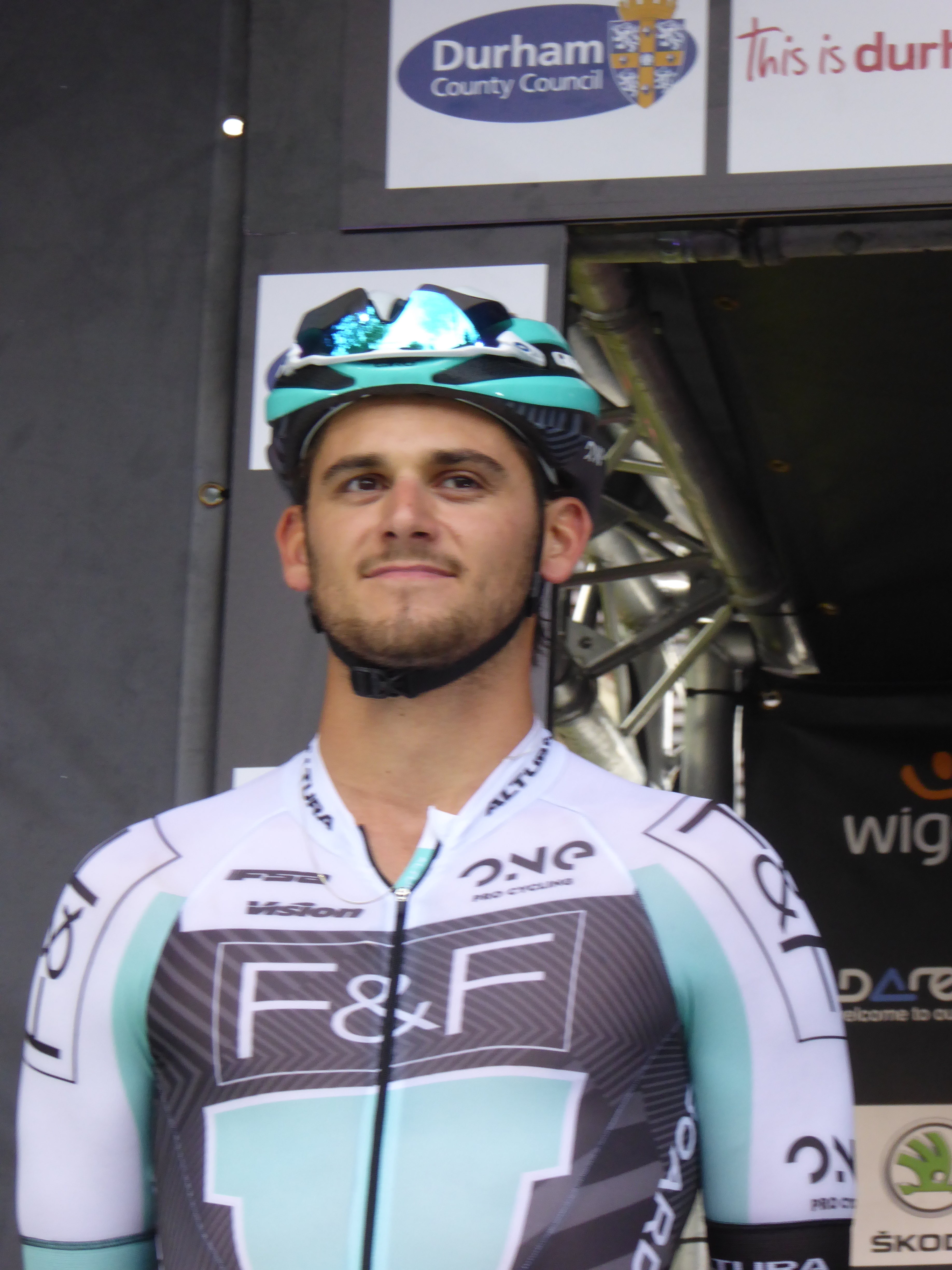 George Harper (ONE Pro Cycling), prior to Round 9 of the Tour Series in Durham, on 27 May 2017.